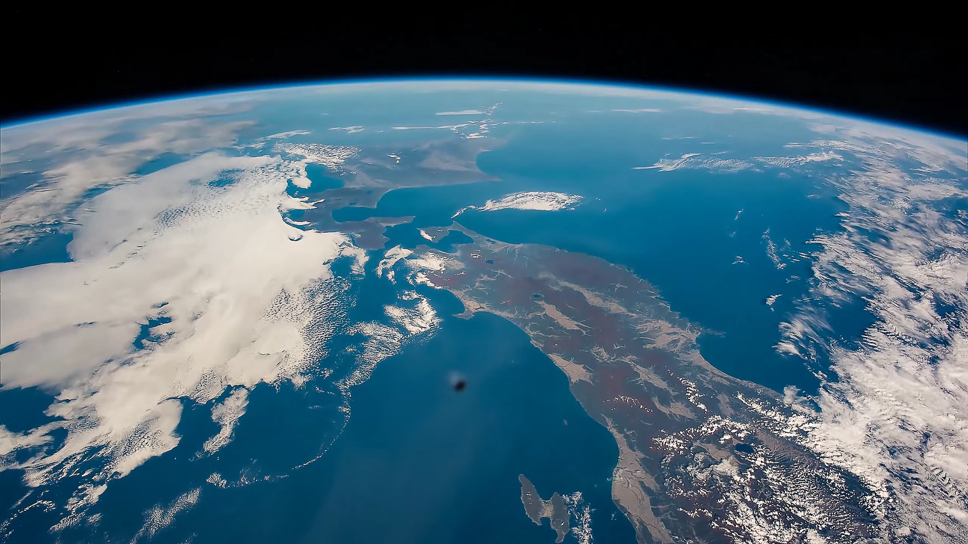 Northern Japan, Tohoku region, seen from the International Space Station (17 October 2015)